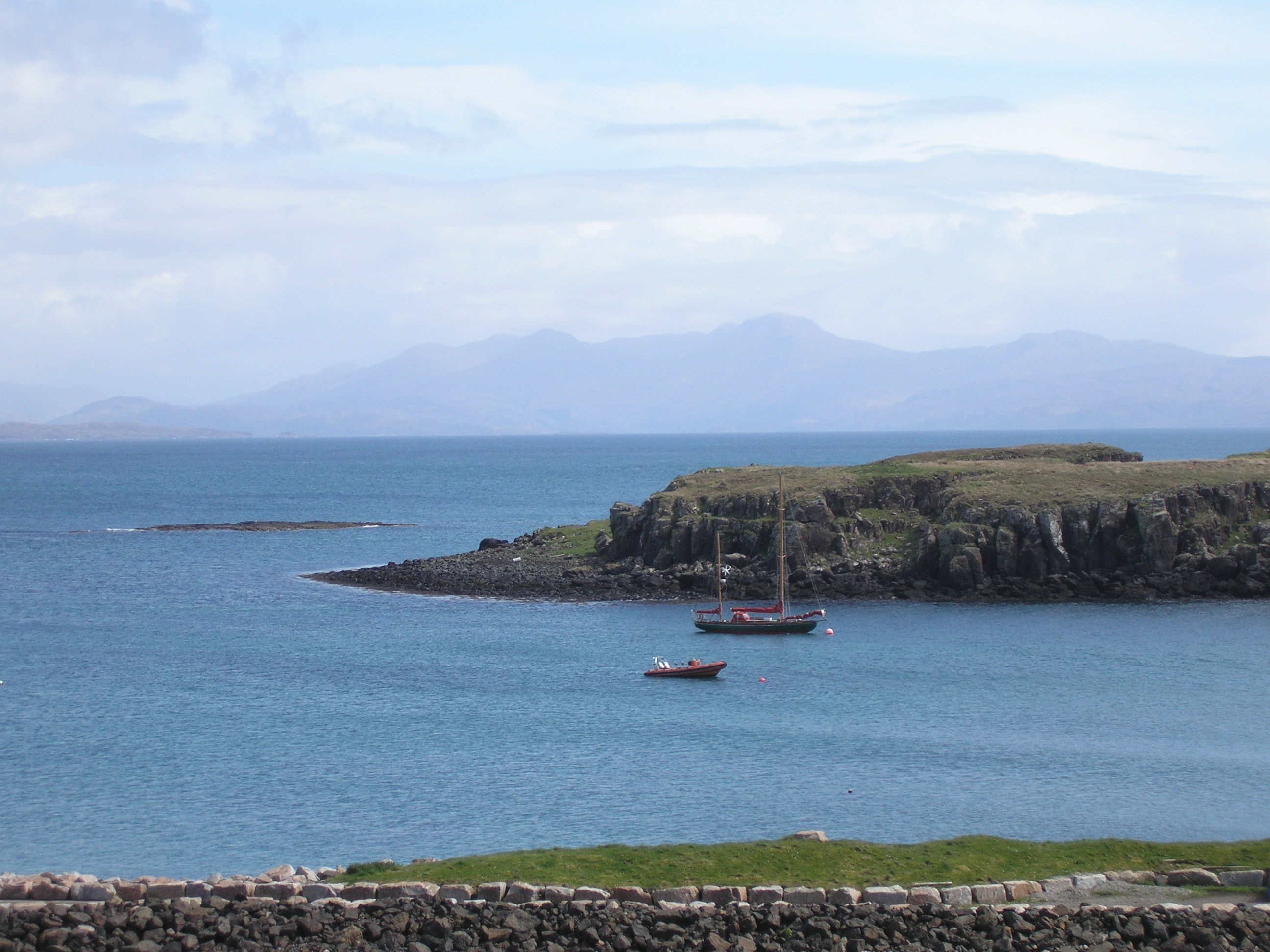 Eilean Chathastail, Small Isles, Scotland, from Eigg with the hills of the mainland beyond